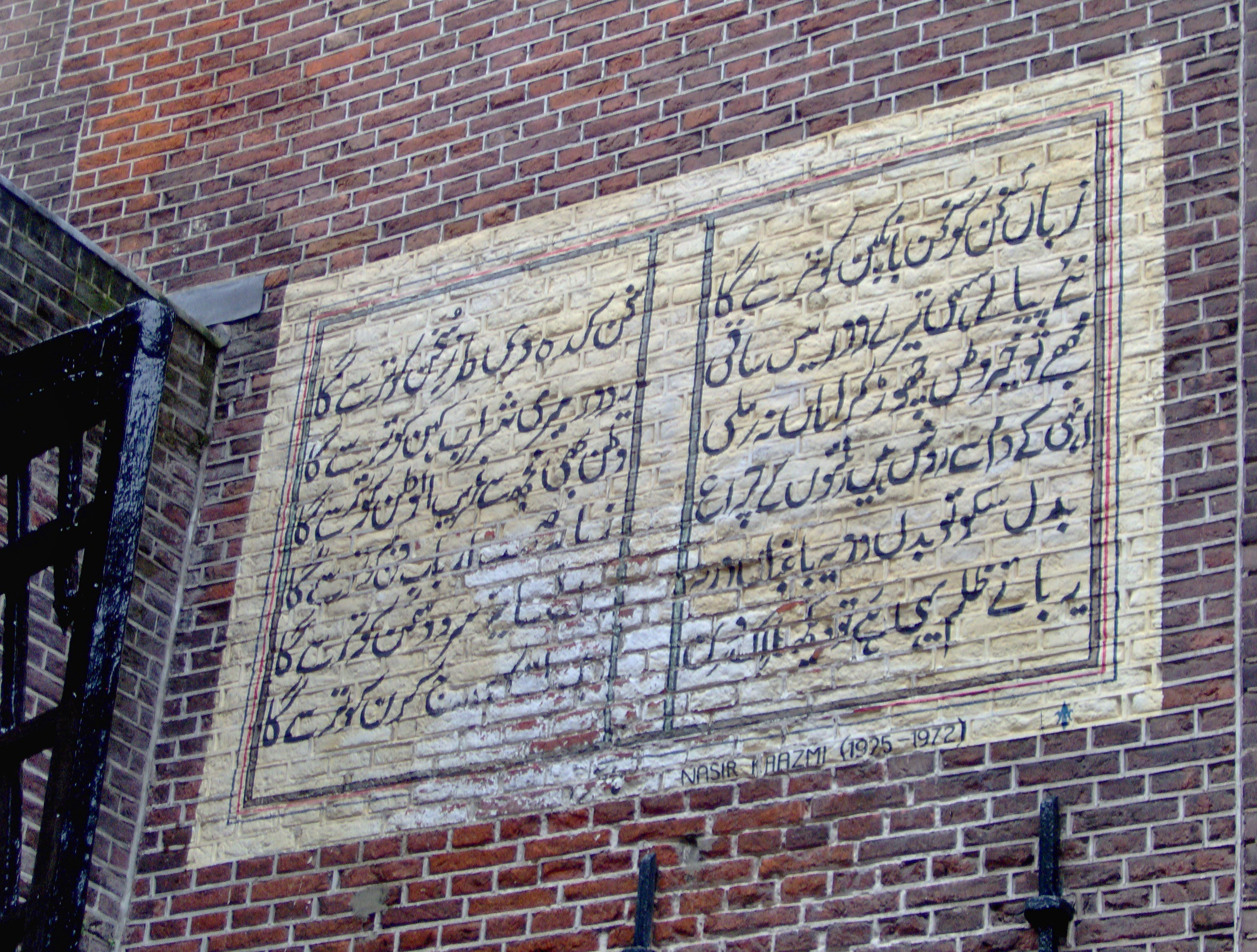 The poem zabaa.N suKhan ko (Tongue will yearn for gift of speech) in Urdu of the Pakistani poet Nasir Kazmi on a wall of the building at the Burgsteeg 12 in Leiden, The Netherlands.